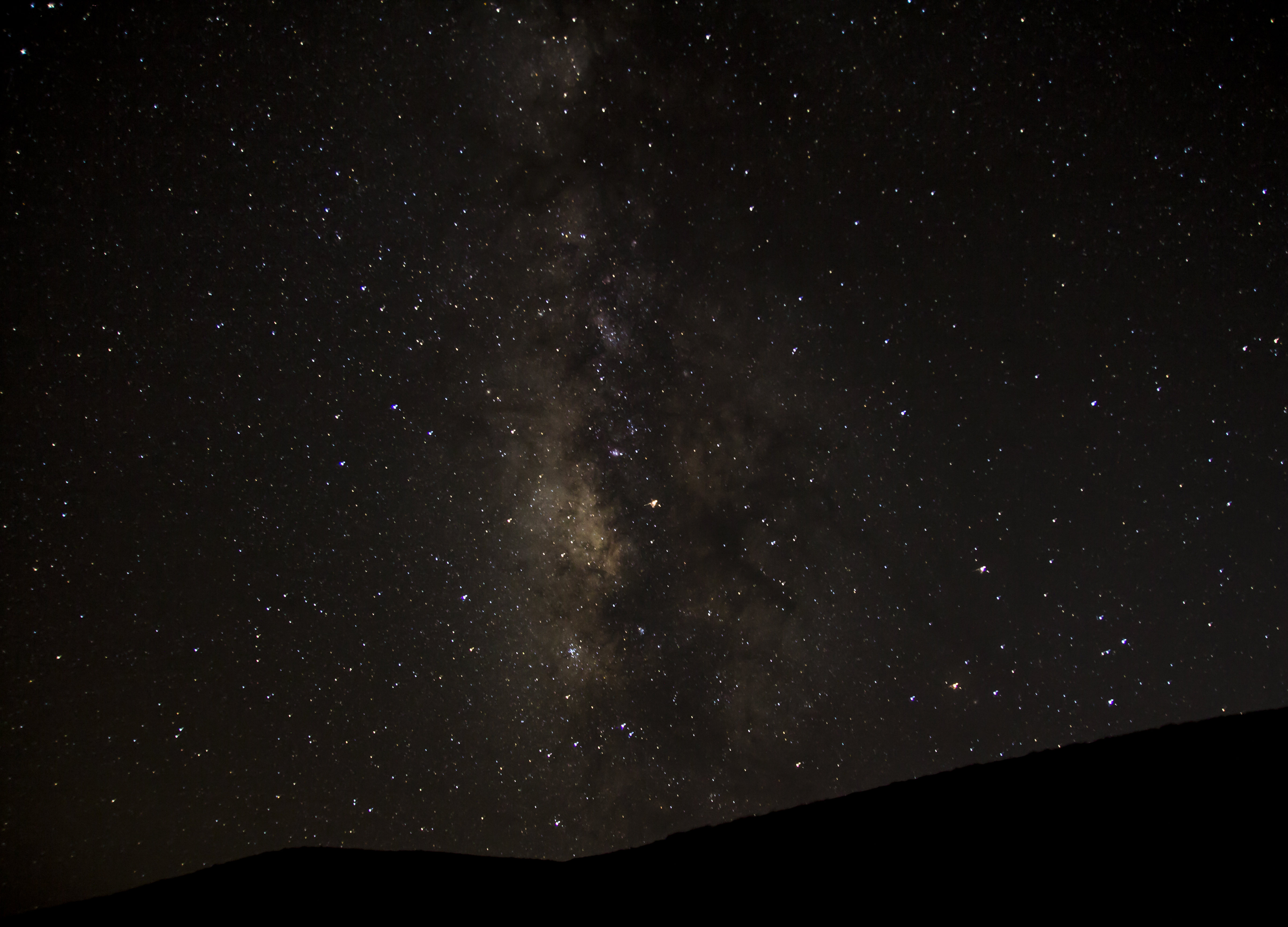 This shot of Milky way at Chandra Taal was taken on 24/09/2016.